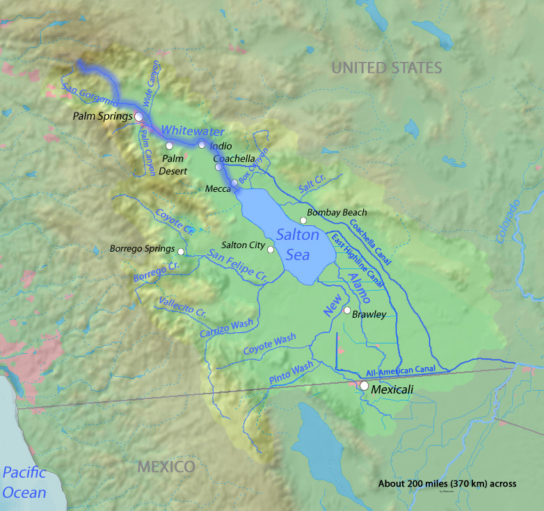 The Whitewater River of southern California, USA highlighted on a map of the Salton Sea drainage basin